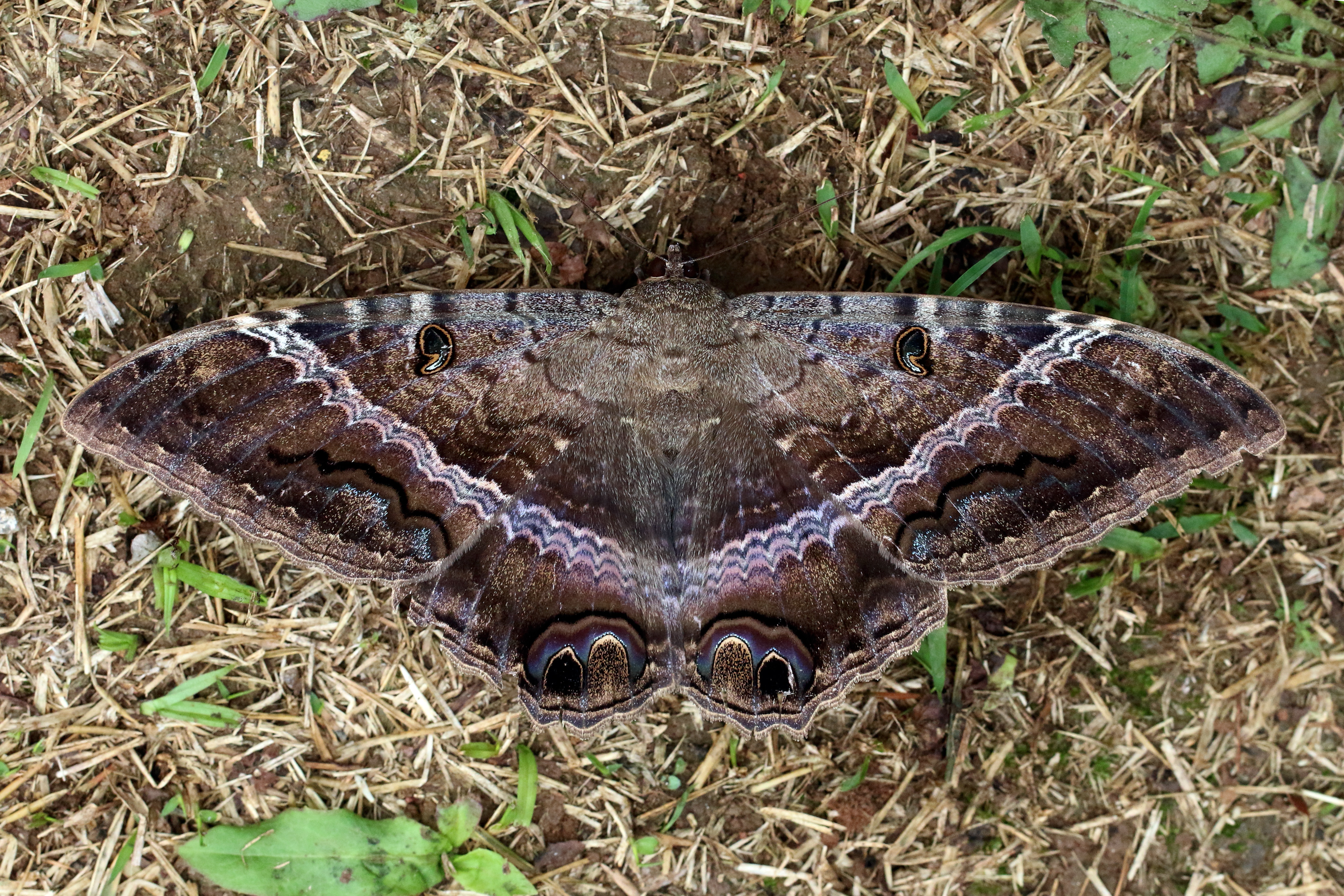 Black witch moth (Ascalapha odorata), Sao Paulo, Brazil